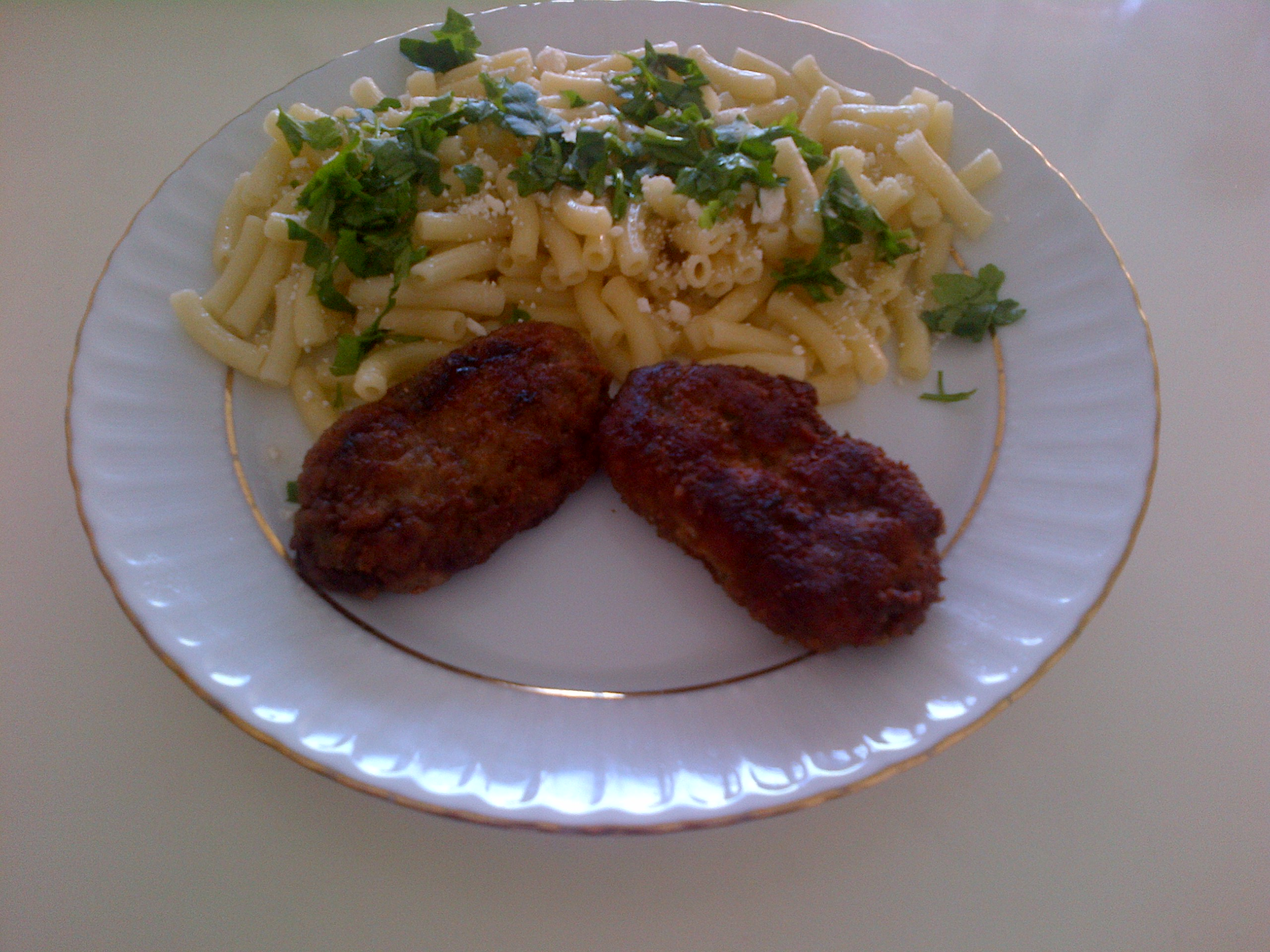 Köfte and macaroni on the same plate, in Turkey.